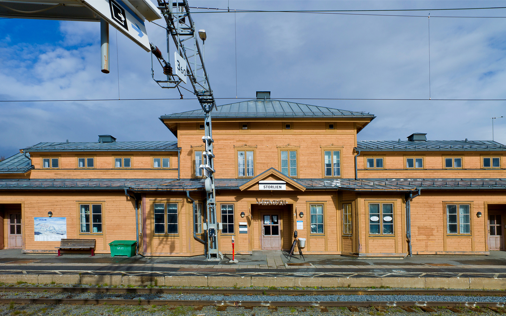 Storlien railway station